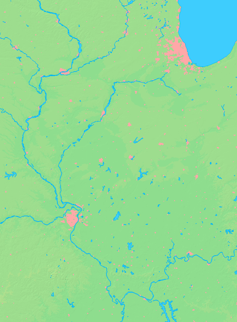 Background map of the Illinois State, USA, ready for the Geobox template, calibrated at Template:Geobox locator Illinois2